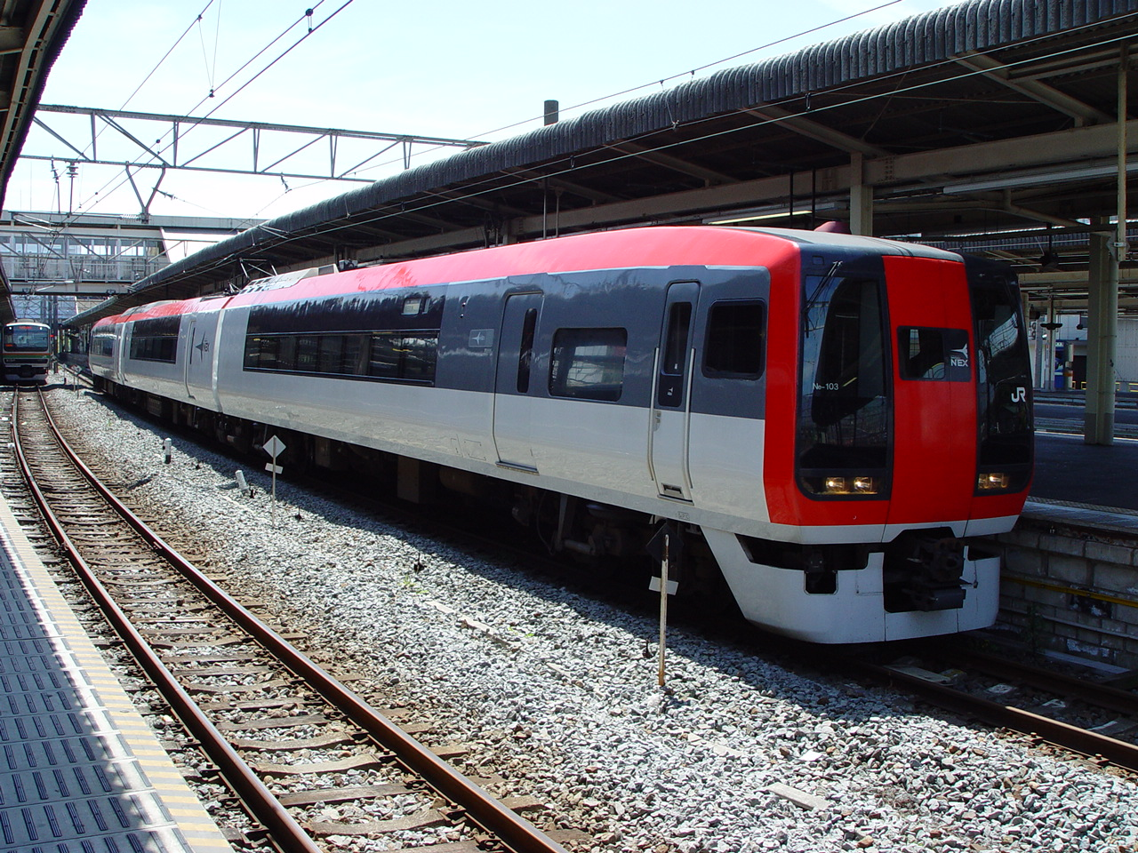 JR East 253 series 3-car EMU set Ne103 at Ofuna Station on the Narita Express 21 service to Narita Airport